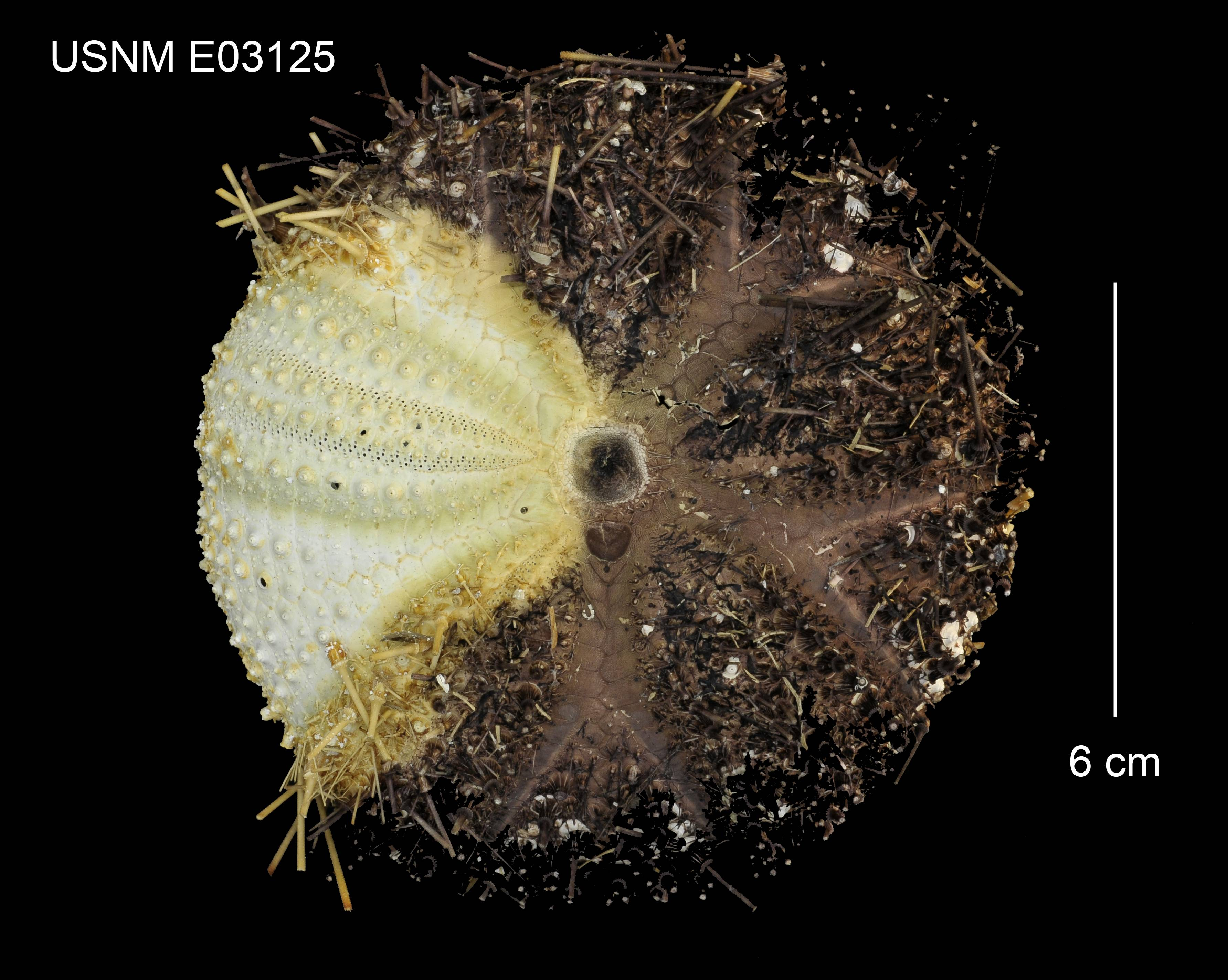 PRESERVED_SPECIMEN; Preparations: Dry; Astropyga magnifica A.H.Clark, 1934; Individual count: 1; Type status: HOLOTYPE; Identified by: Clark, Austin Hobart; Event date: 19330101T00:00:00Z; Additional description: dorsal